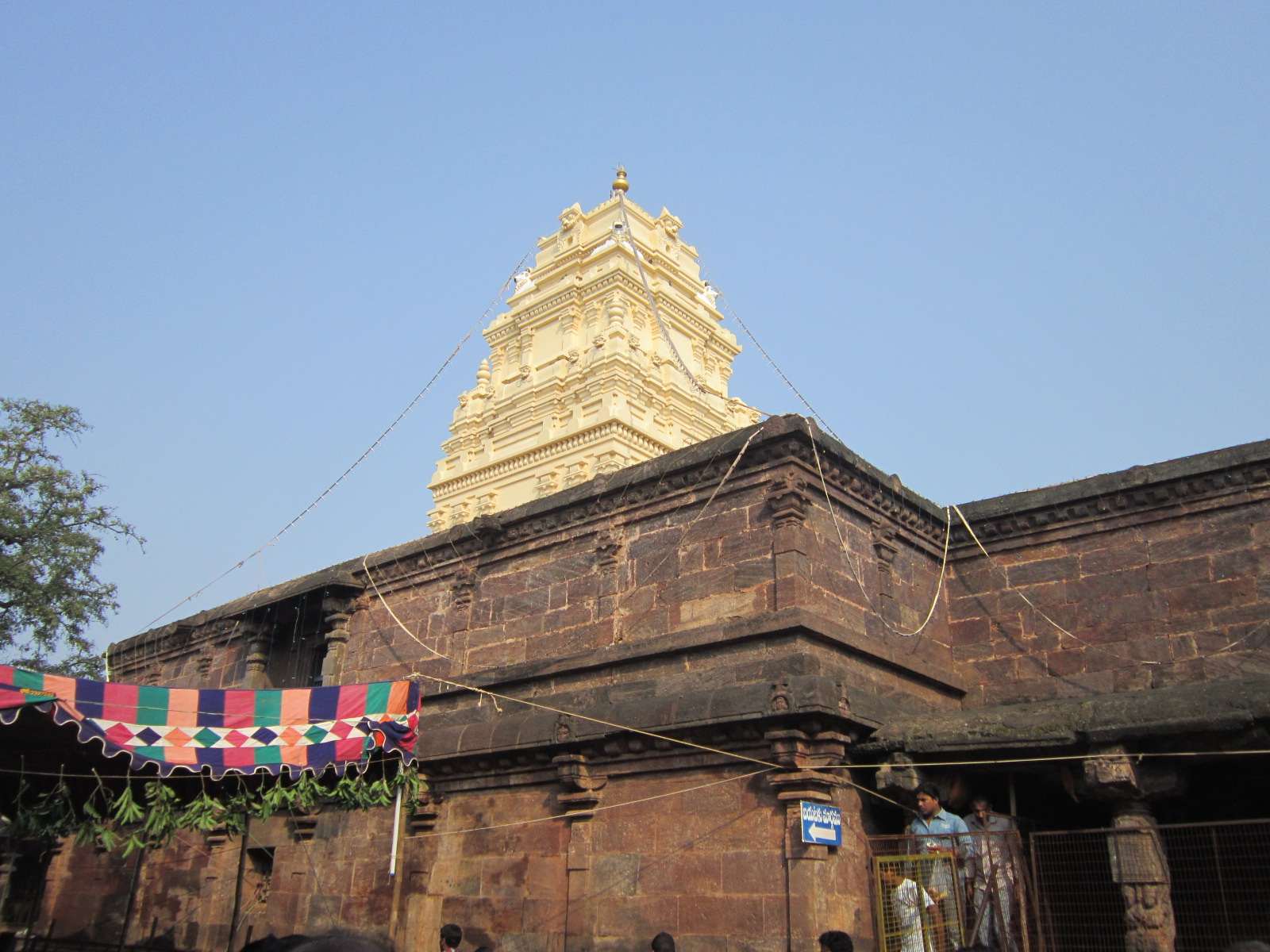 It is a siva temple in the east Godavari dist of Andhra pradesh,India